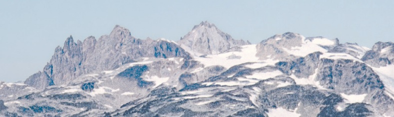 Panoramic view of the Mount Cayley massif in British Columbia, Canada. Pyroclastic Peak on the left and Mount Cayley in the middle. View is westward 25 km from Whistler Mountain